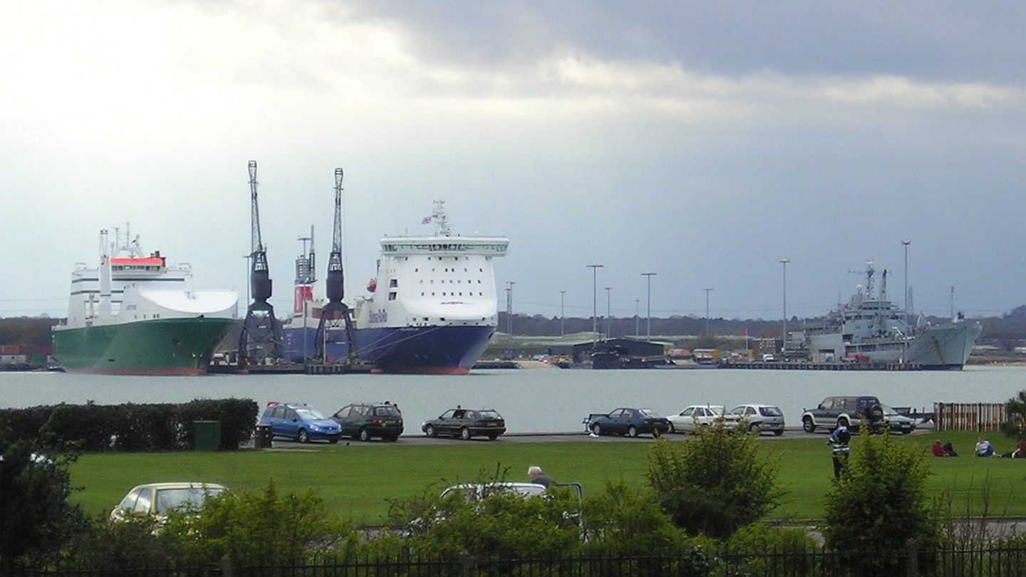 Marchwood Military Port from Southampton. In port are Andrew Weir Shipping's Hurst Point, a Stena RoRo vessel and a Royal Fleet Auxiliary Landing Ship Logistics, possibly Sir Percivale Ship name: Hurst Point Typ: Cargo Ship IMO Number: 9234068 Flag: United Kingdom MMSI Number: 235500000 Callsign: ZIQE8 Length: 193 m Beam: 26 m